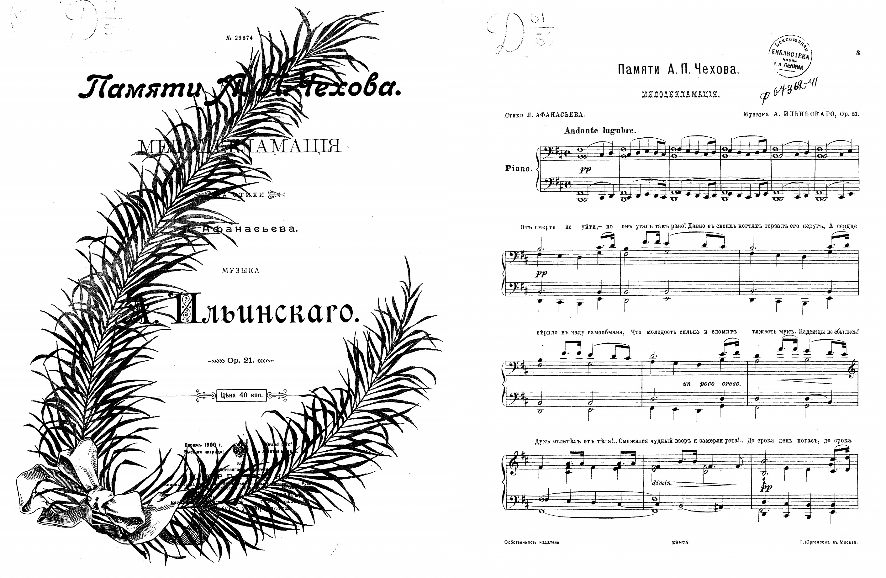 “In Memory of Chekhov” (notes). Melodeclamation: Or. 21 / music by Alexander Ilyinsky to the verses by L. Afanasyev.